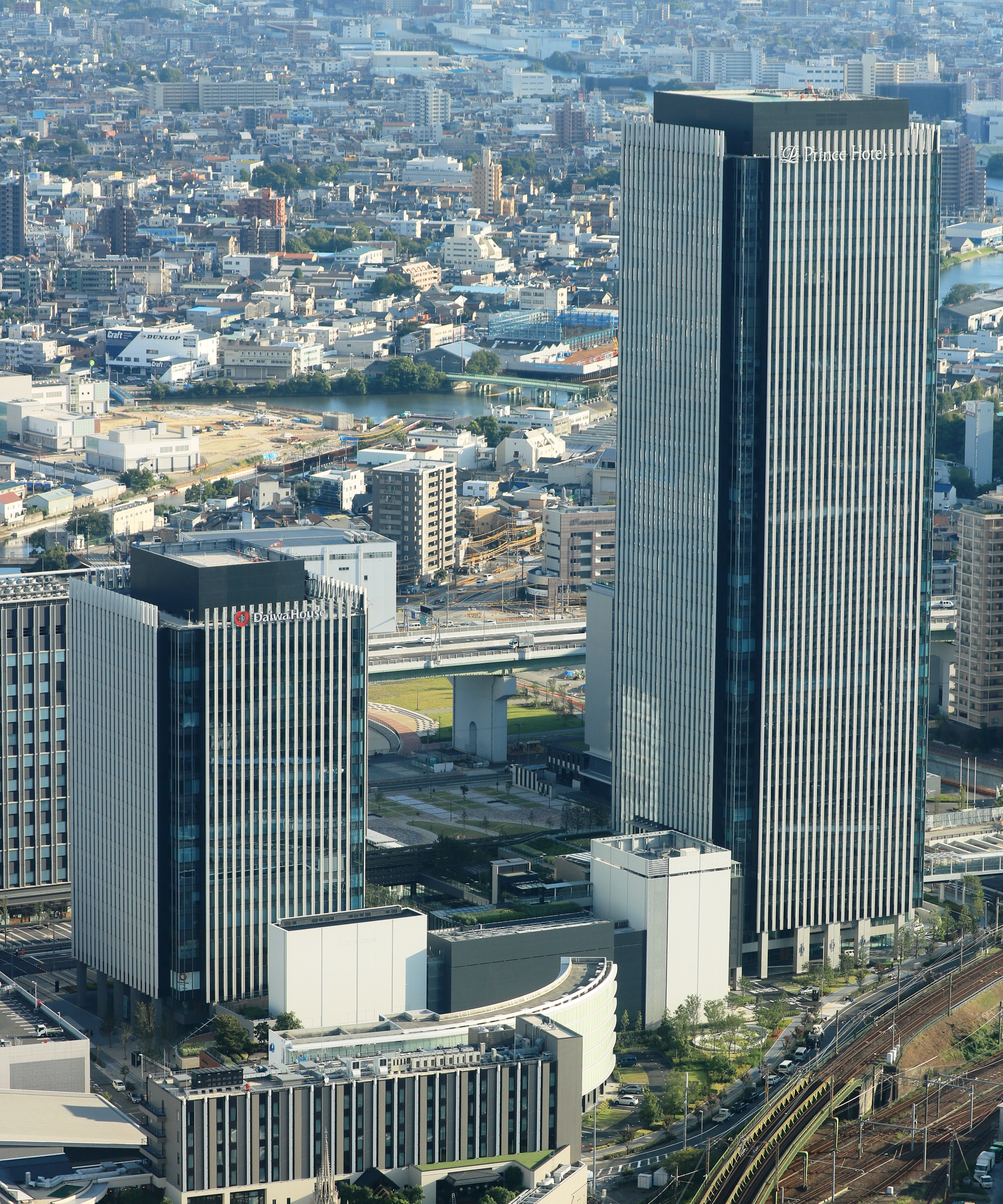 Global Gate seen from Midland Square in Sasashima-raibu24, Nakakura-ku, Nagoya, Aichi prefecture, Japan.